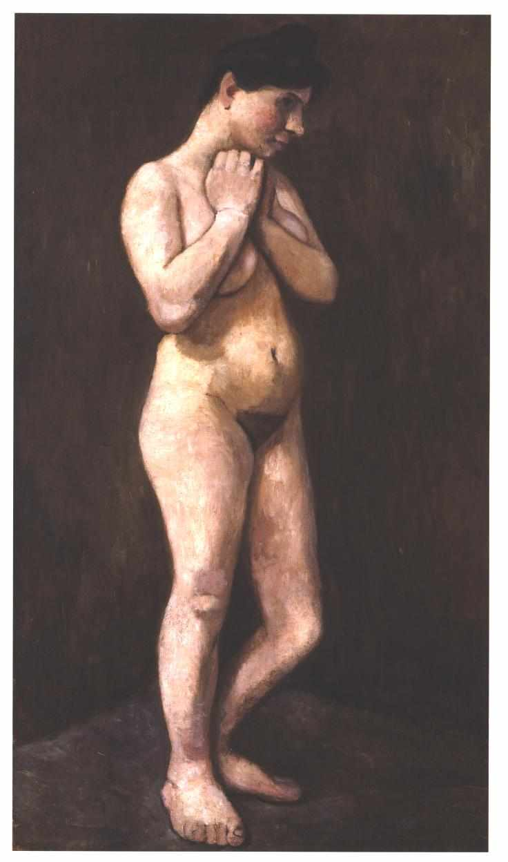 Standing female nude